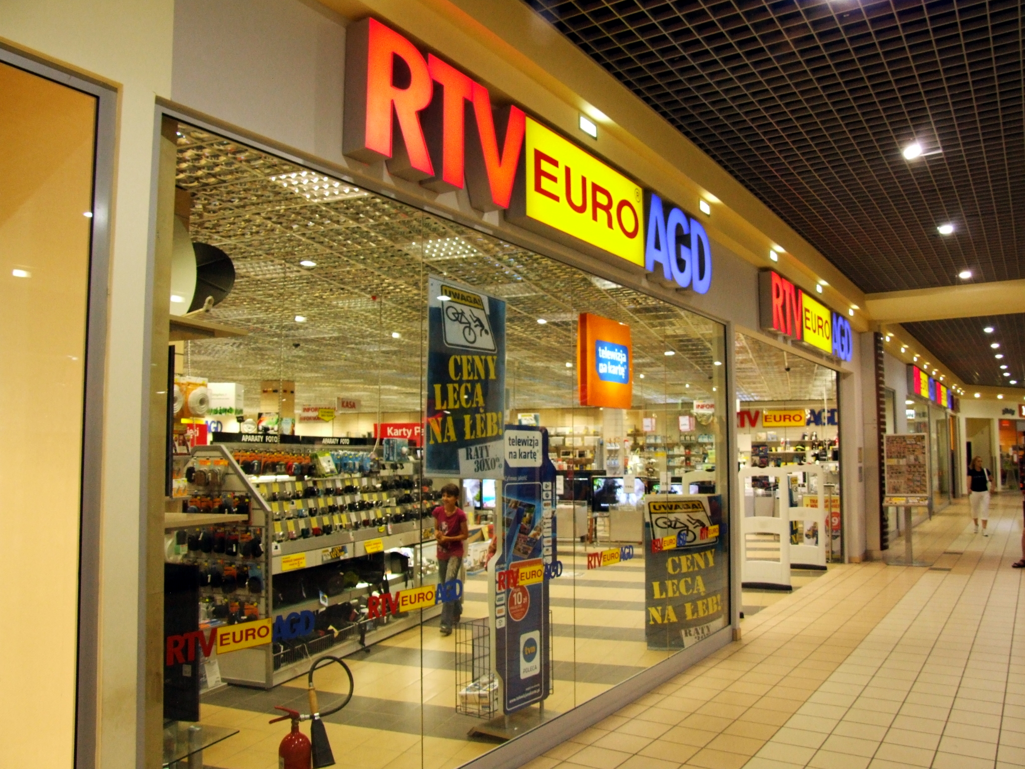 RTV Euro AGD store in Galeria Ostrowiec shopping centre in Ostrowiec Swietokrzyski